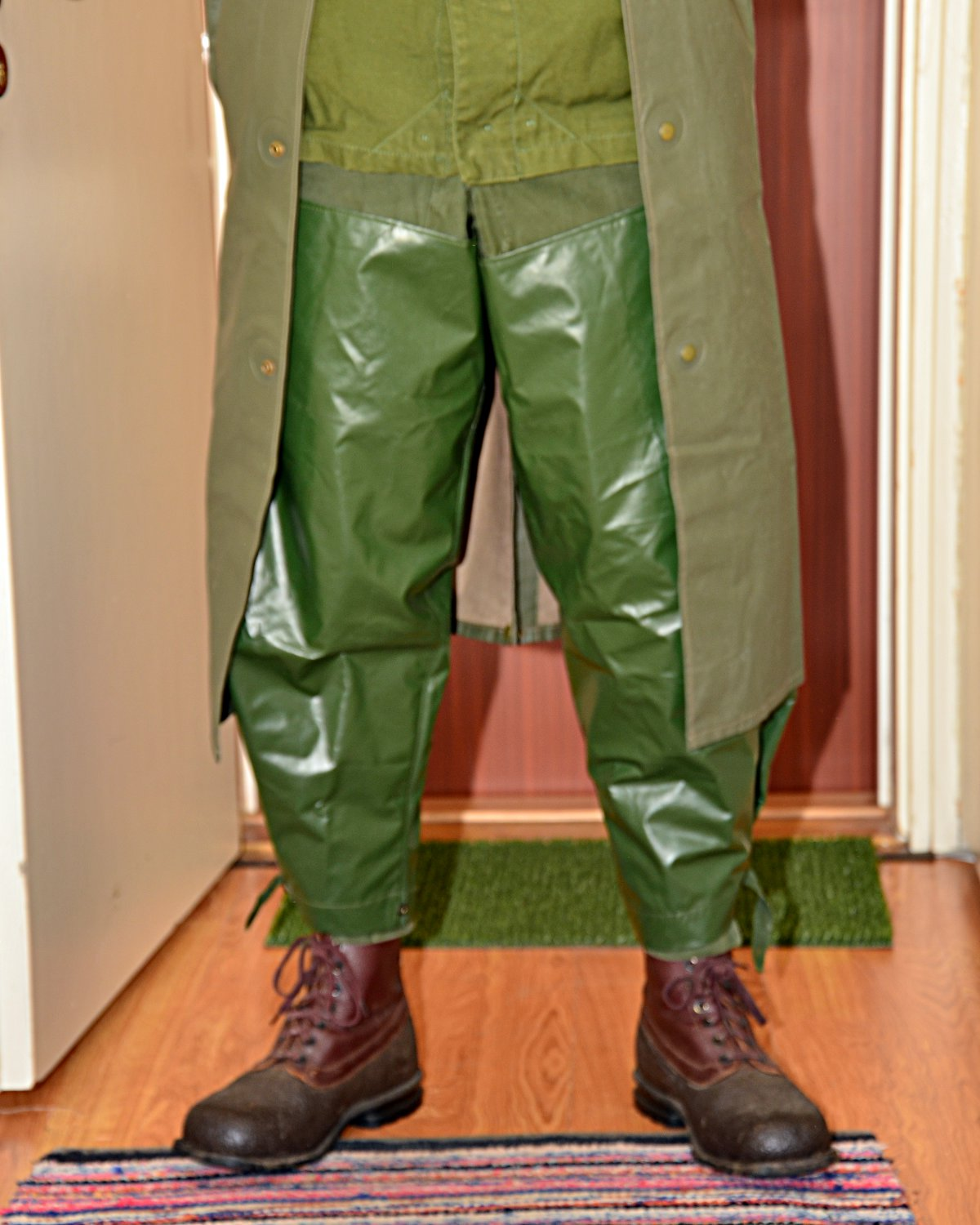 Field uniform m/59 with raincoat and rainleggings.